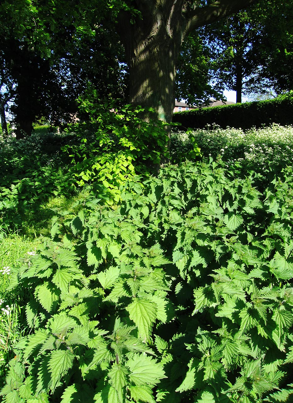 Urtica dioica dioica (European Stinging nettle). A group of stinging nettles growing in a shaded spot beside a tree.